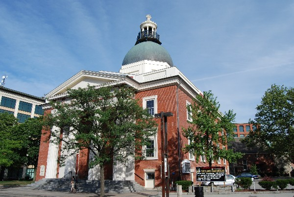 Beneficient Congregational Church, Weybosset Street, Providence, Rhode Island